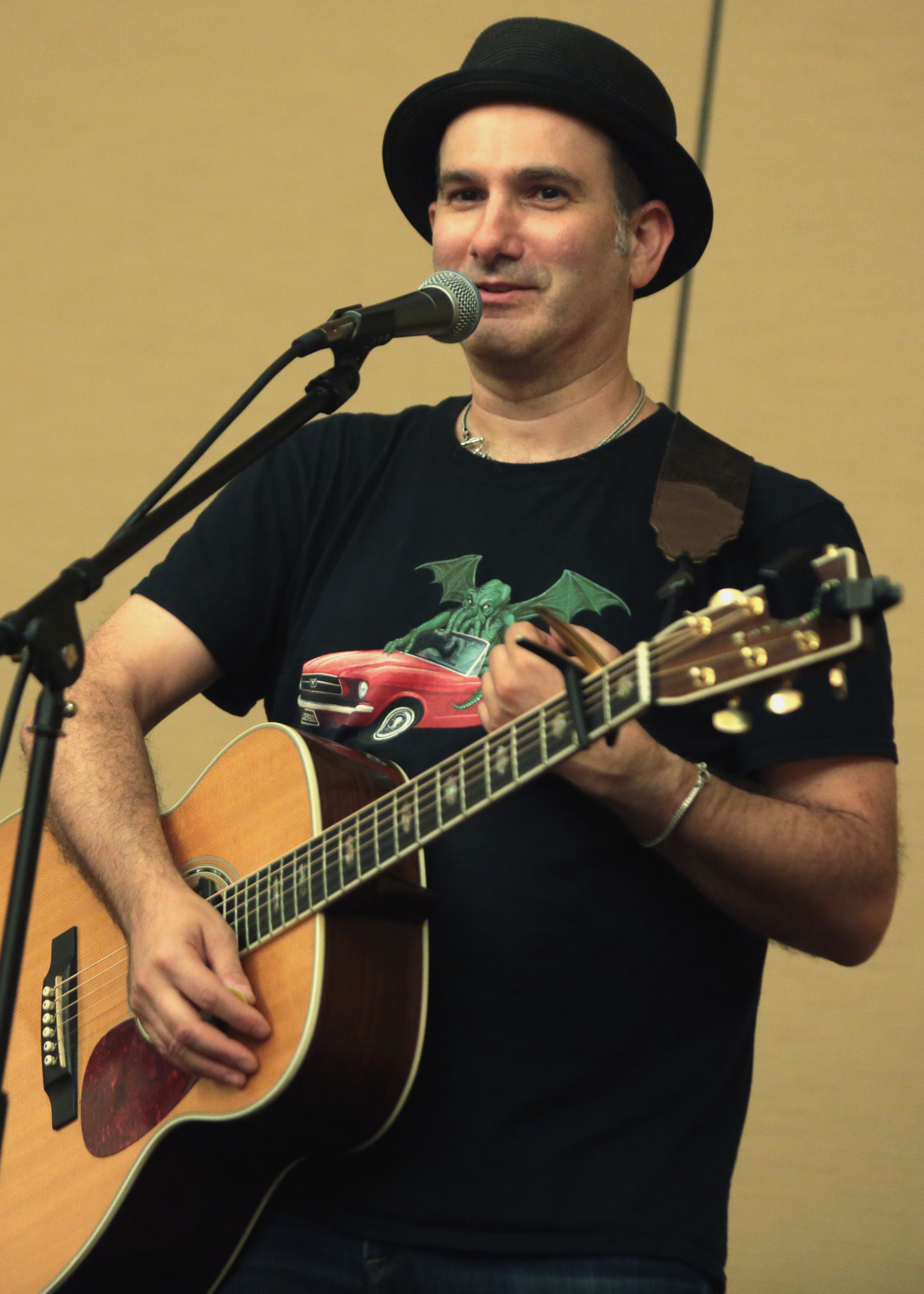 Eric Stuart performing at Saboten Con in Phoenix, Arizona.